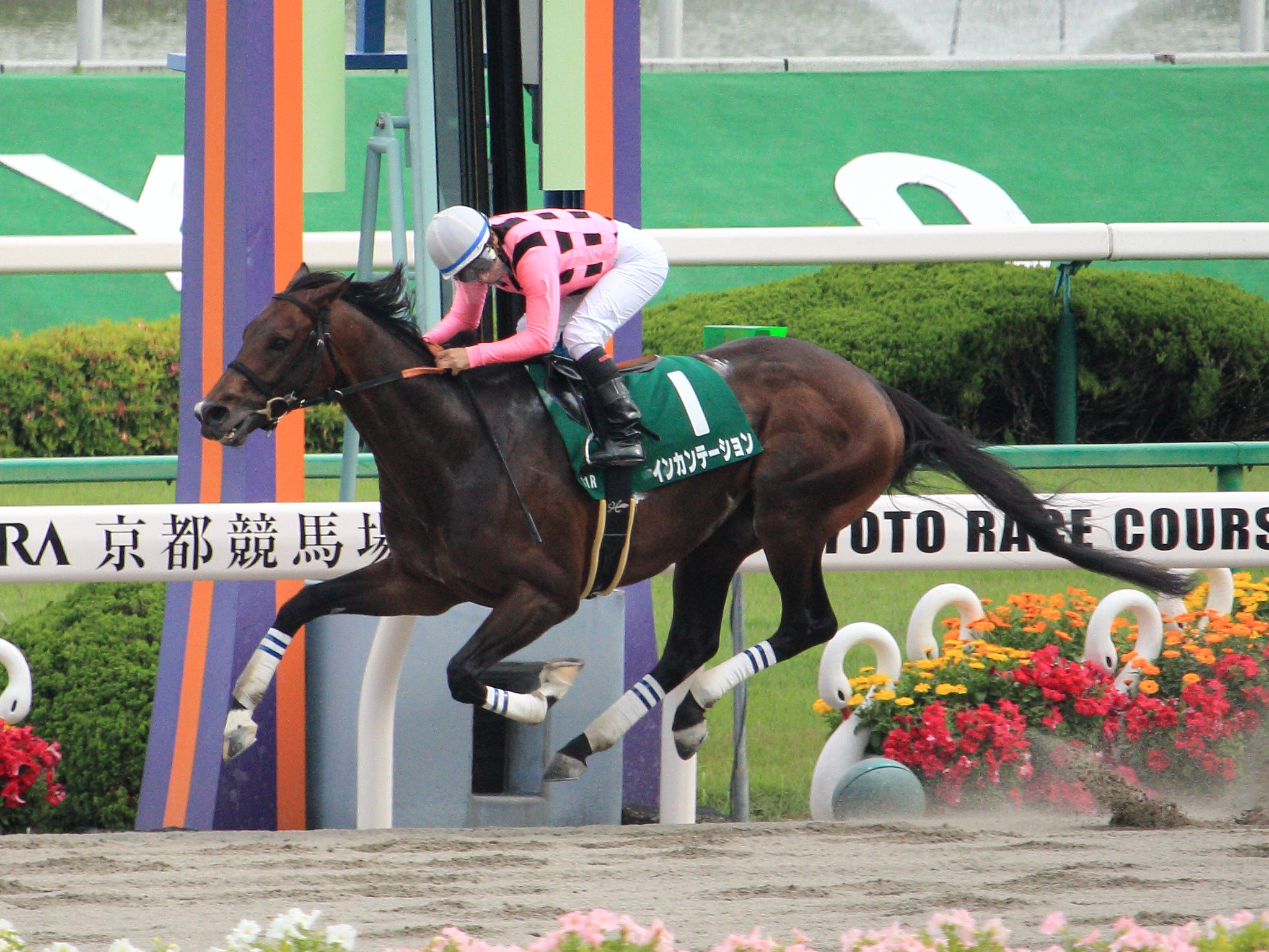 Incantation (Racehorse of Japan).